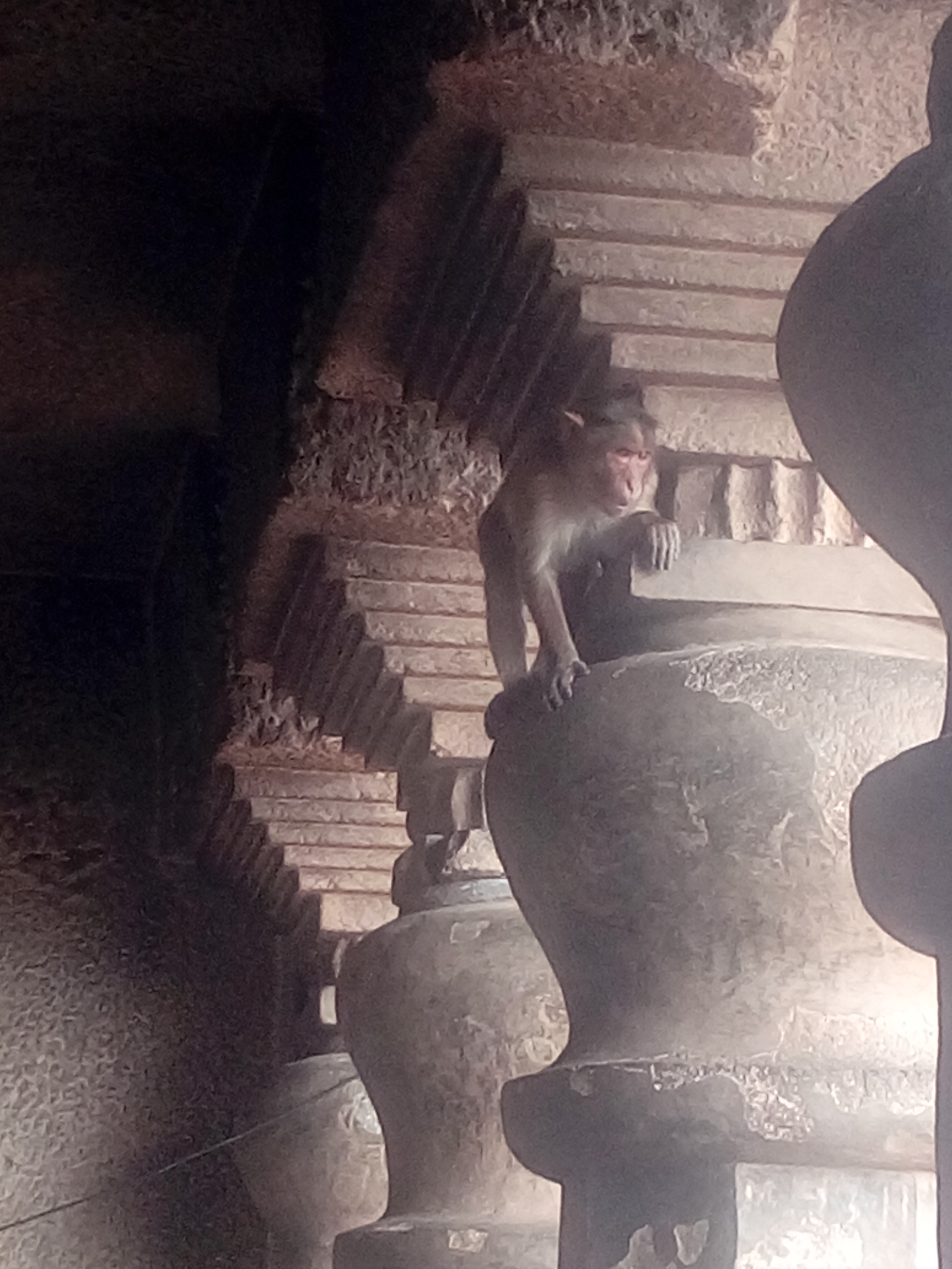 Lenyadri Temple is a home to many such 🐒 monkeys